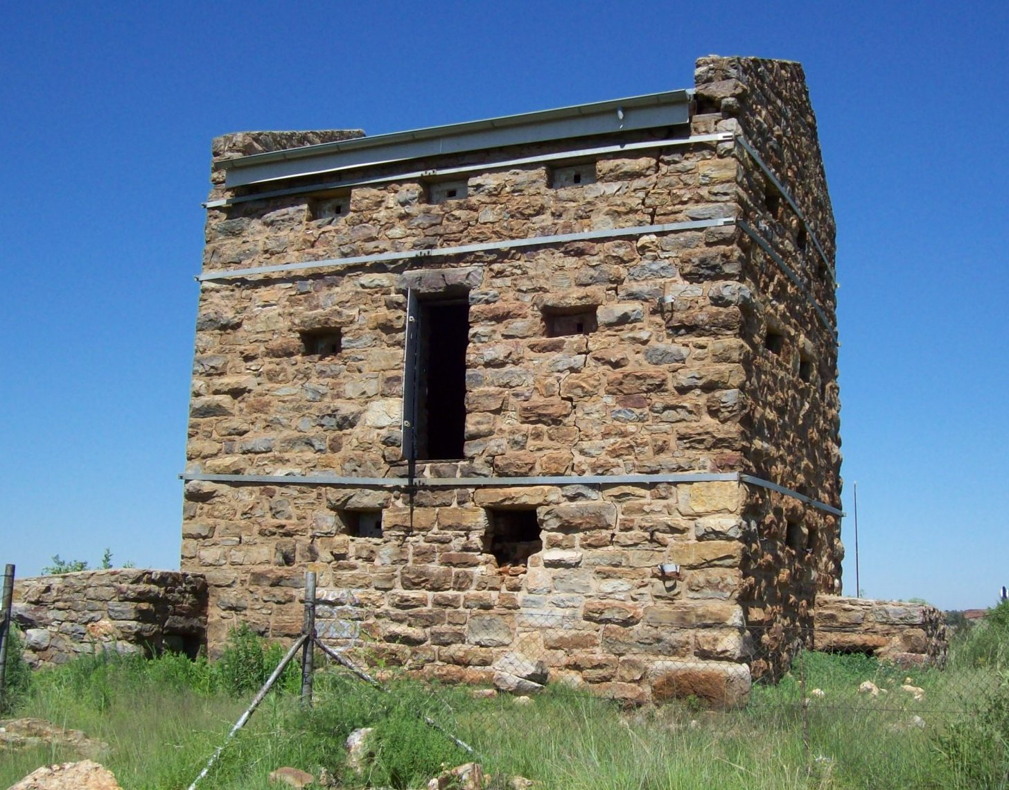 Witkop Blockhouse on the way to Vereeniging. This media shows a South African Protected Site with SAHRA file reference 9/2/277/0007.